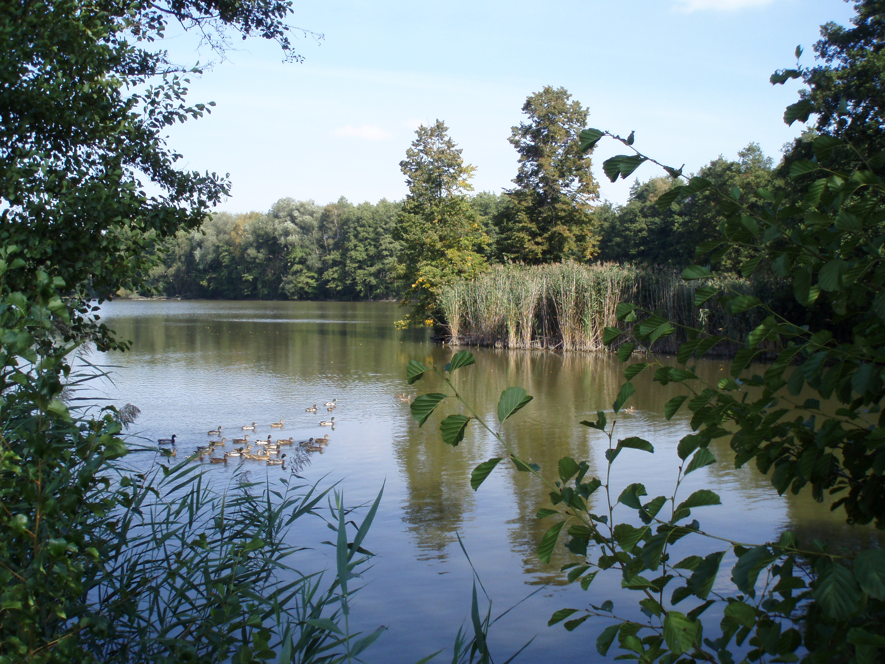 Pond Datlík in Hradec Králové (Czechia)